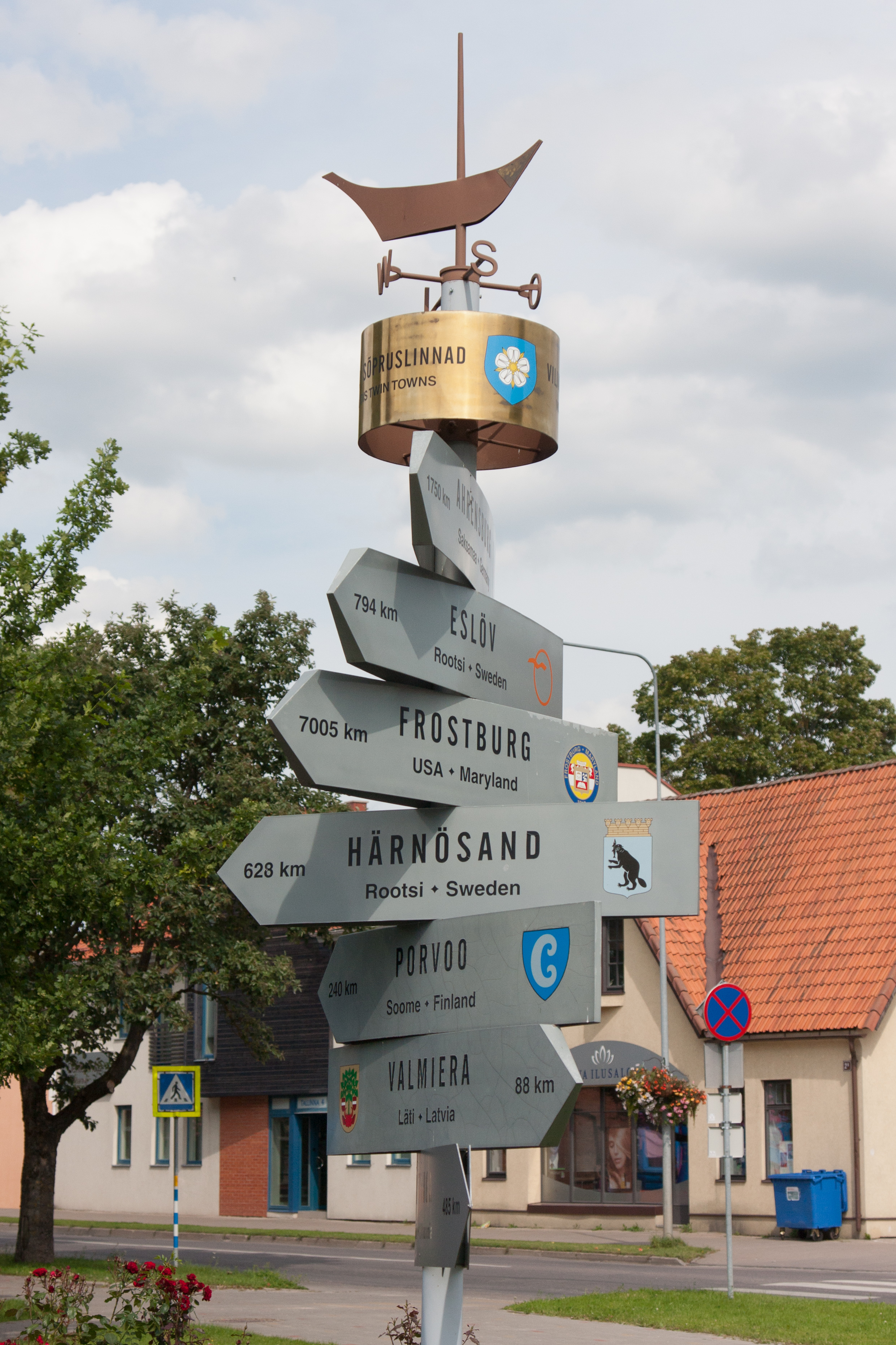 Signs showing distances from Viljandi to twin towns.